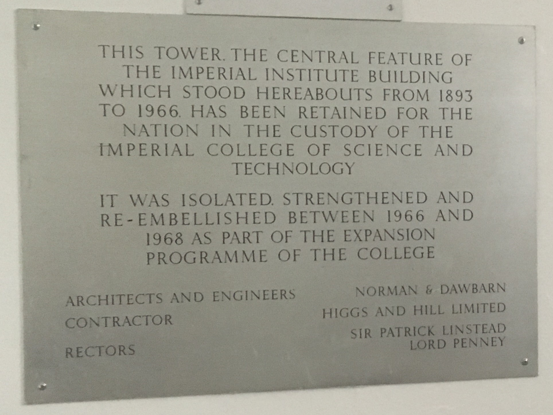 Plaque on the ground floor of the Queen's Tower, London: "This tower, the central feature of the Imperial Institute Building which stood hereabouts from 1893 to 1966, has been retained for the nation in the custody of the Imperial College of Science and Technology. It was isolated, strengthened and re-embellished between 1966 and 1968 as part of the expansion programme of the College"